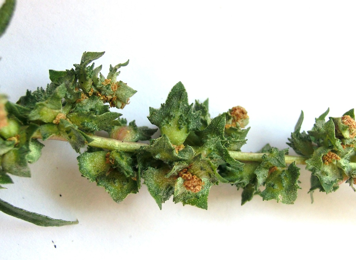 Atriplex tatarica, inflorescence. Germany, east of Halle (Saale), parking place at highway A9 (Sachsen-Anhalt/Sachsen).